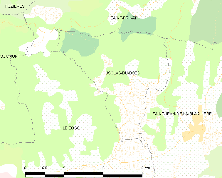 Map commune FR insee code 34316.png - Usclas-du-Bosc